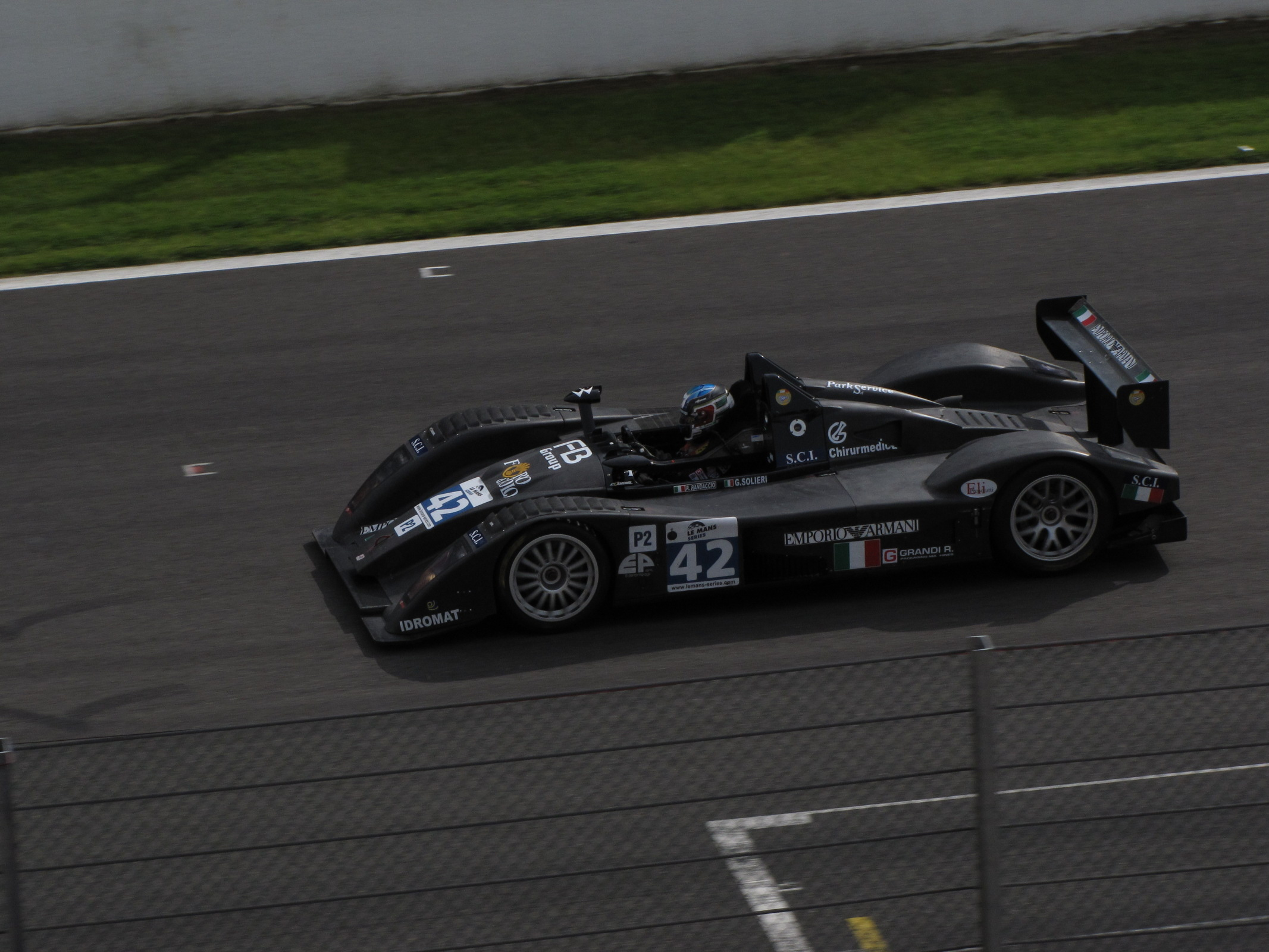 Glauco Solieri driving a Lucchini LMP2 at the free practice seasion of the 1000 km Spa in 2009.